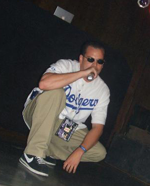 Serio live in 2009 concert.